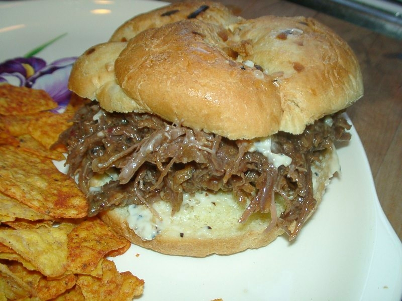 Pulled pork is a form of barbecue. It is a method of preparation in which pork is cooked using a low-heat, long-cook method. The meat becomes tender enough that its weakened connective tissue allows the meat to be "pulled", or easily broken into individual pieces.